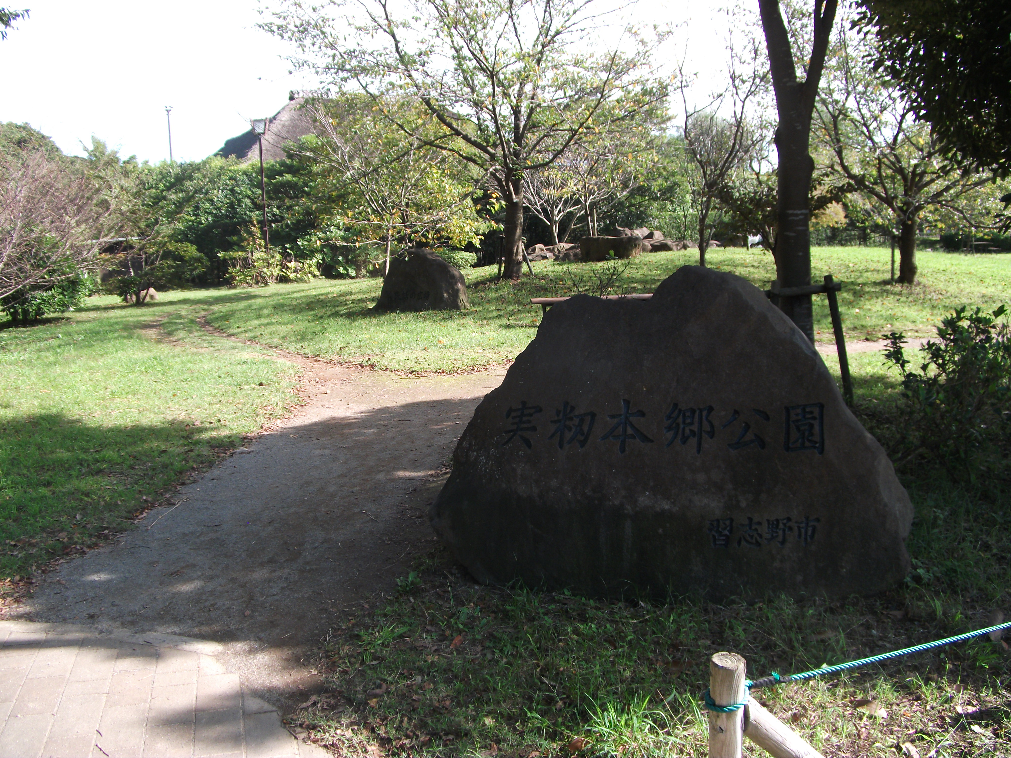 Mimomi Hongo Park in Narashino City, Chiba Prefecture, Japan